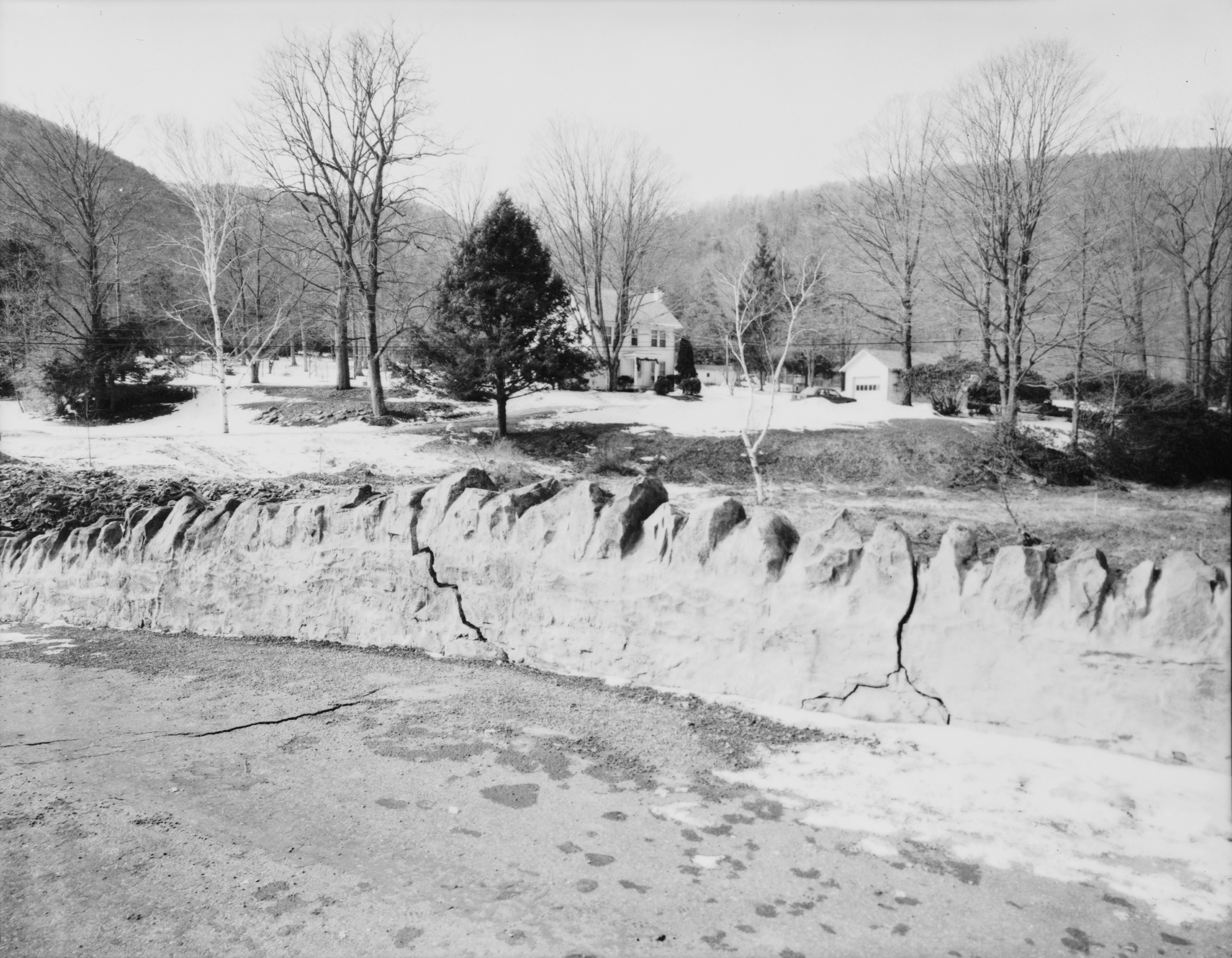 Plunketts Creek Bridge No. 3 over Plunketts Creek in Plunketts Creek Township between Barbours and Proctor, Lycoming County, Pennsylvania, USA. Original number was "HAER PA,41-BARB.V,1-6", original caption was "6. West parapet, looking west-northwest."